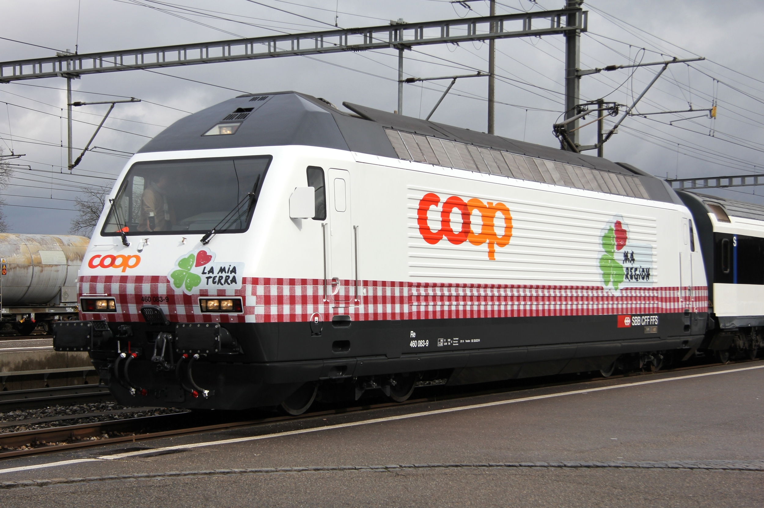 SBB Re 460 083-9 with advertisement for the Coop markets products "My Region".